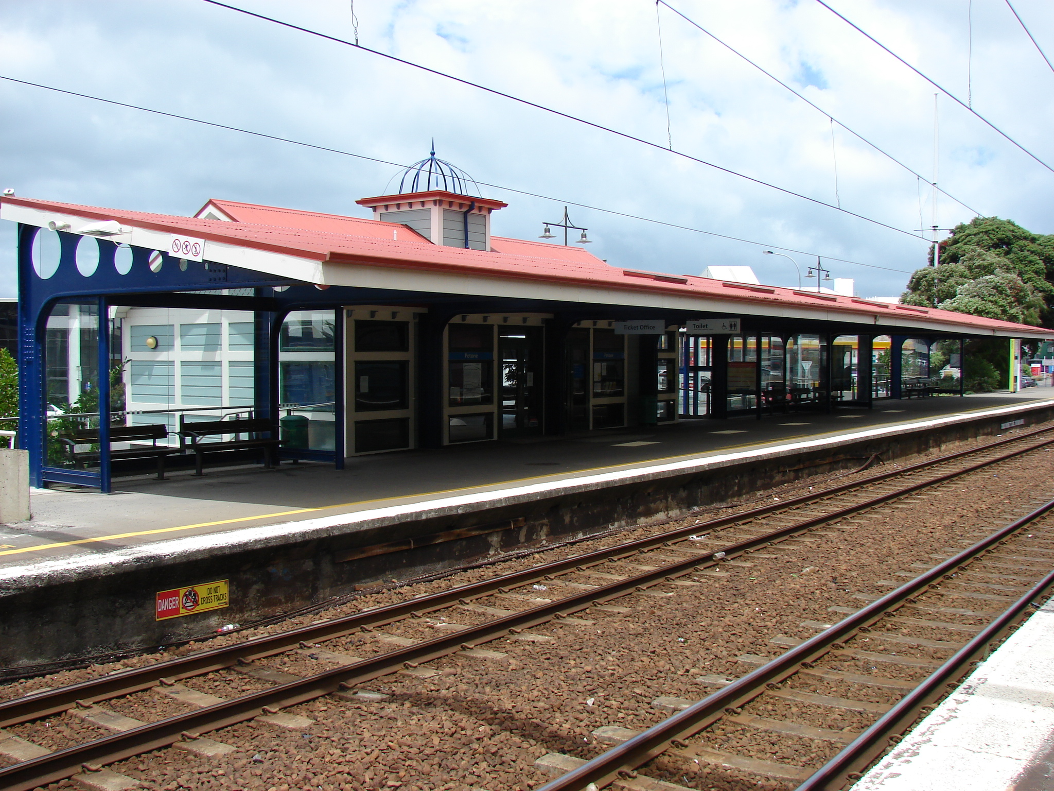 Petone railway station platform 1. The ticket office and passenger amenities are on this platform, as well as access to Hutt Road and the bus terminal. Photographed by Matthew25187 on 2007-12-24.